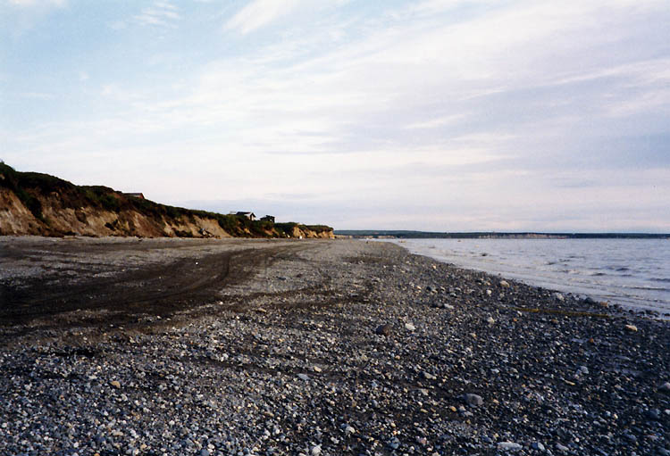 Photo of Bristol Bay shoreline near Naknek